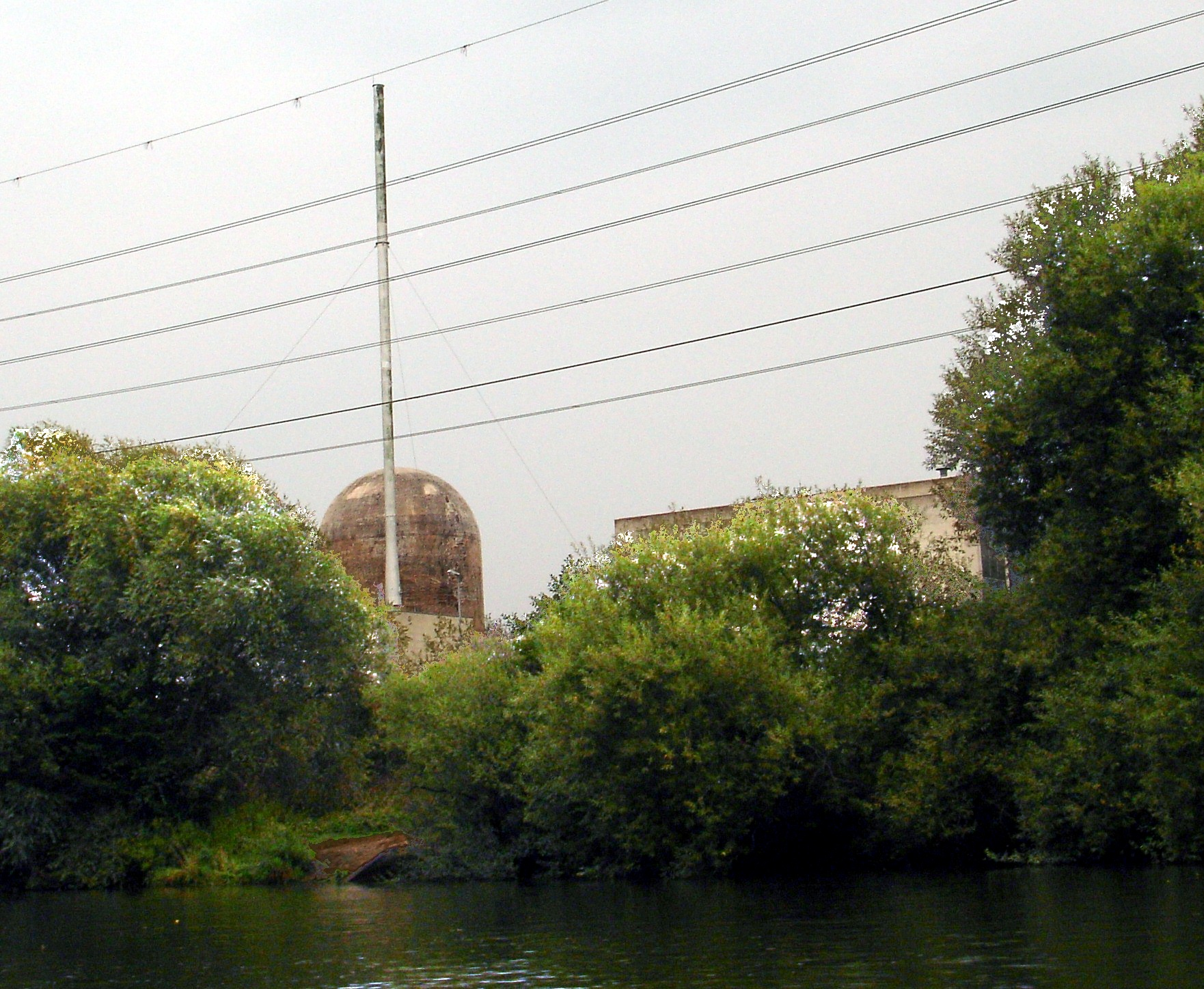 Kahl nuclear power station in Germany, photographed from the Main